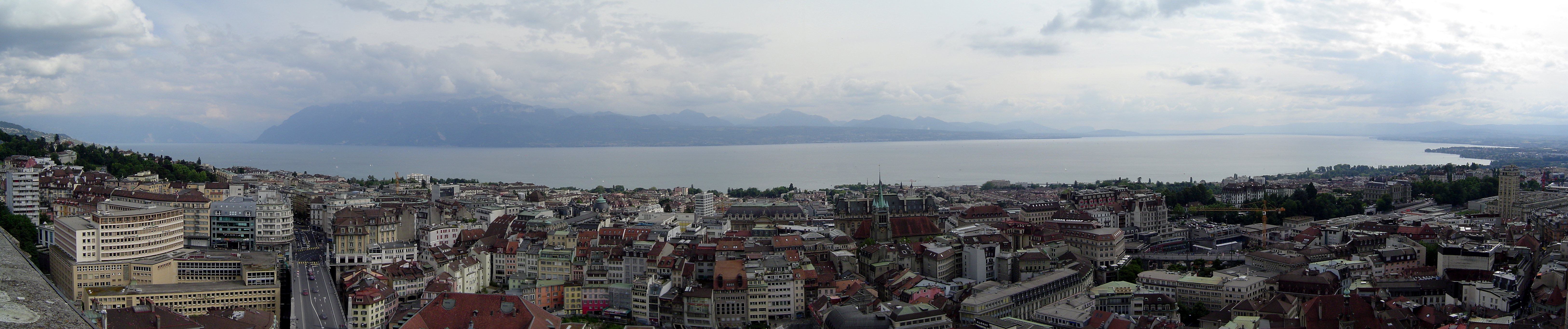 Picture taken from the top of Lausanne Cathedrale